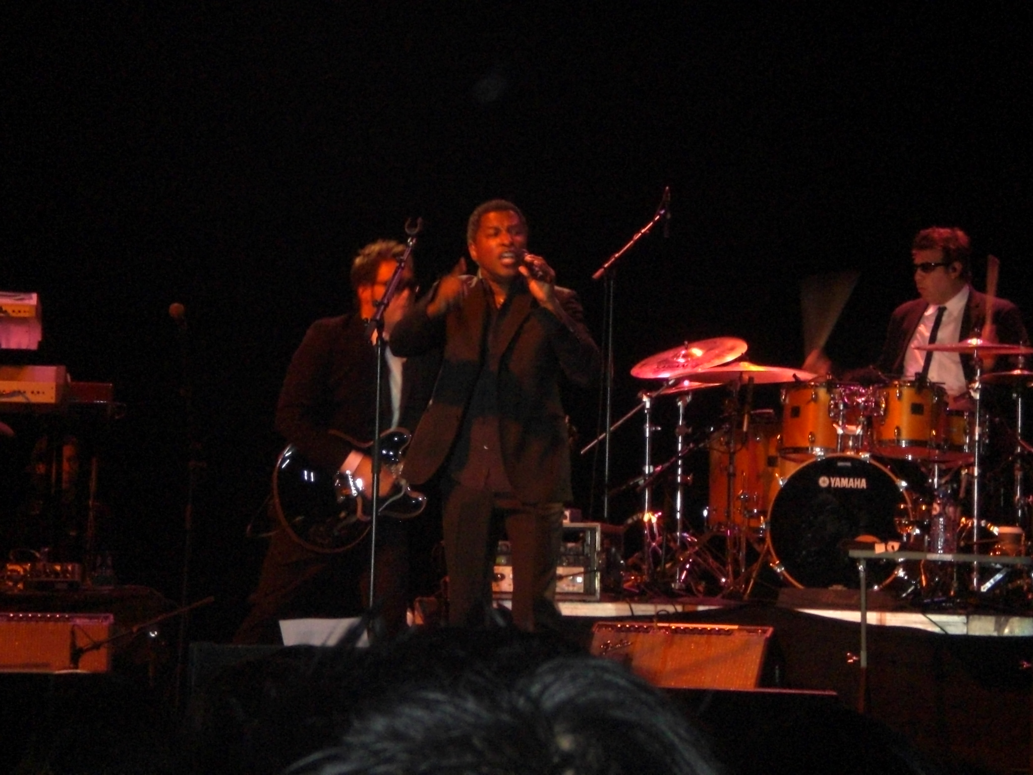 Kenneth "Babyface" Edmonds. I shot this photo of Babyface @ a live gig in Amsterdam @ RAI Congress Hall